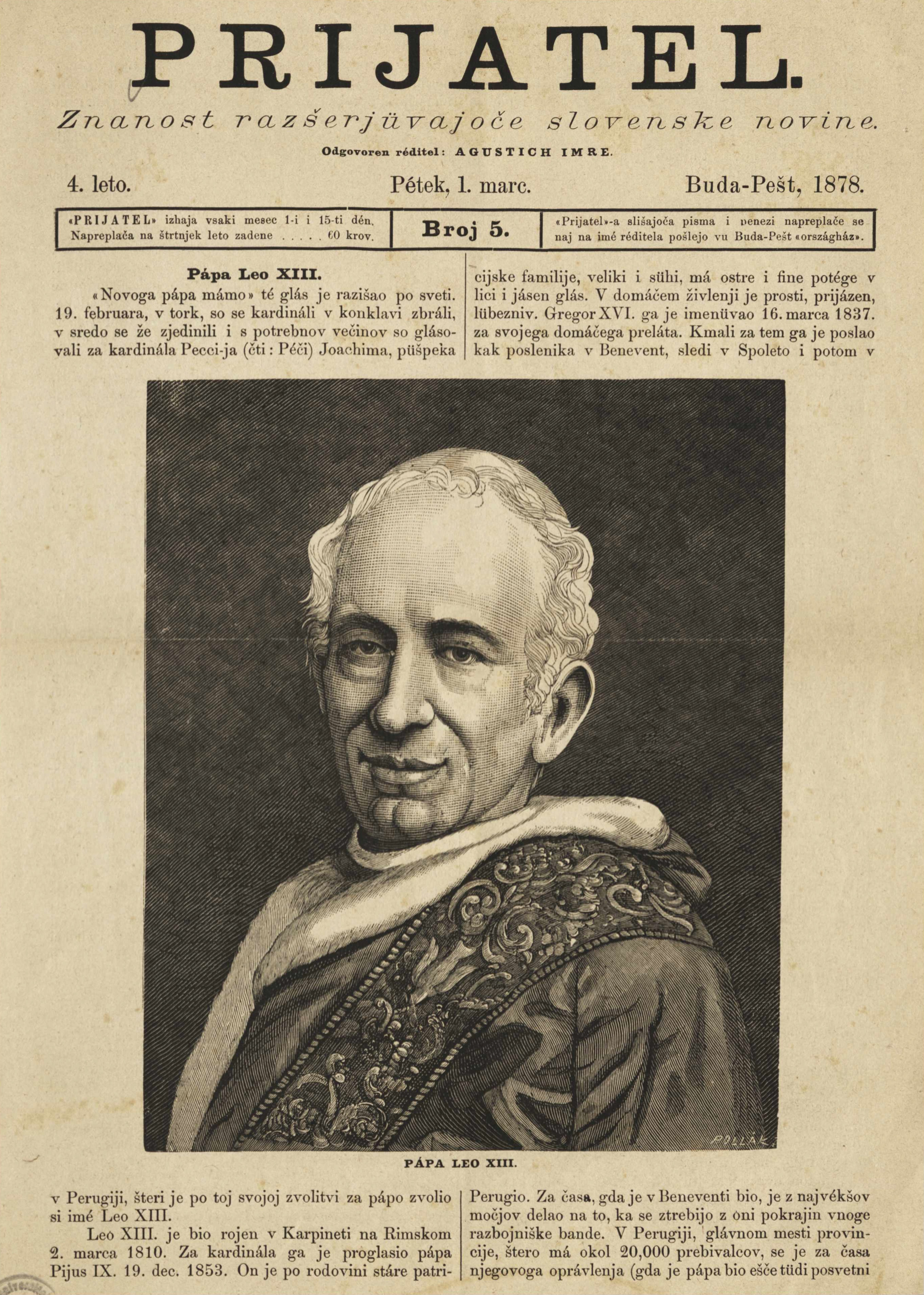 The Prijátel of Imre Augustich, in it pope Leo XIII